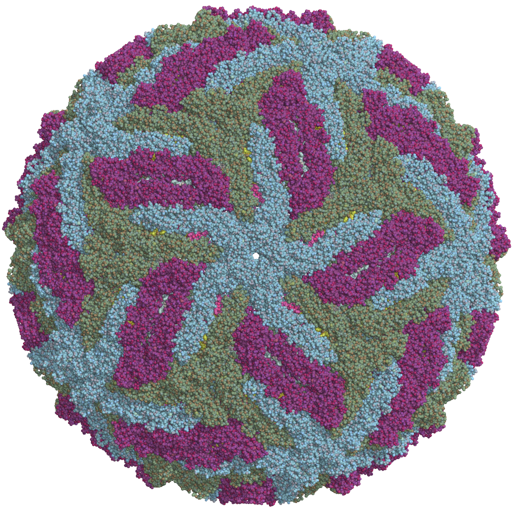 Depiction of Zika virus cryo-EM structure based on PDB: 5IRE​. Made in Qutemol.